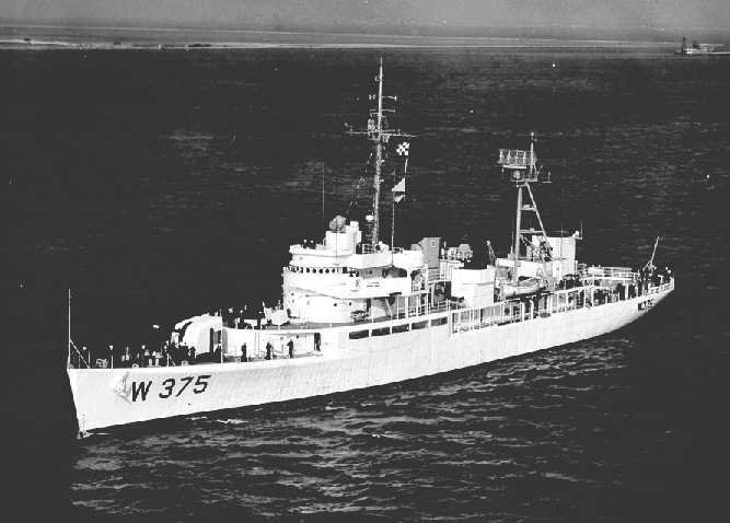 United States Coast Guard cutter USCGC Chincoteague (WAVP-375), later WHEC-375